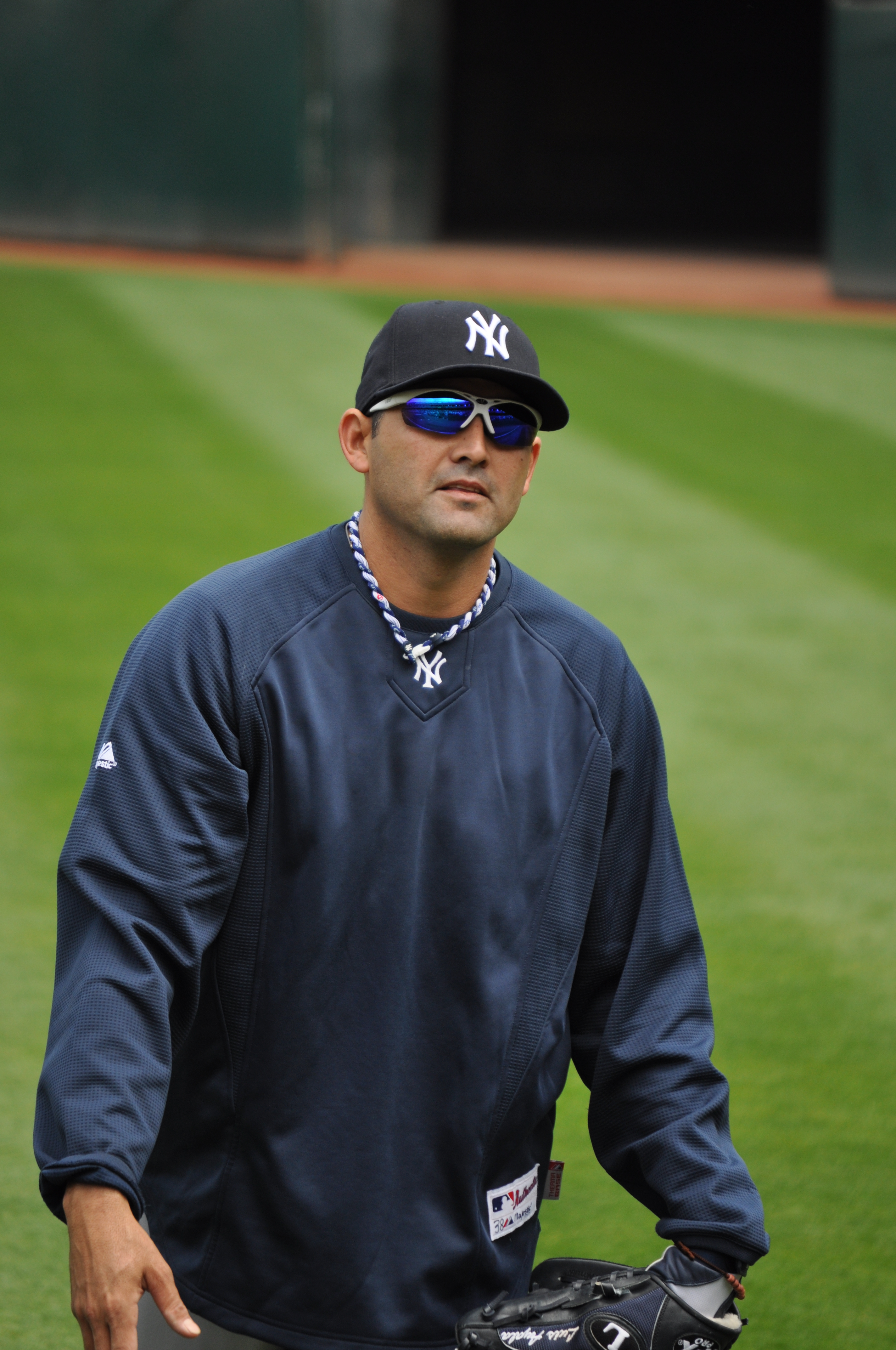 Luis Ayala warming up before the 5/30/11 A's-Yankees game in Oakland, CA.